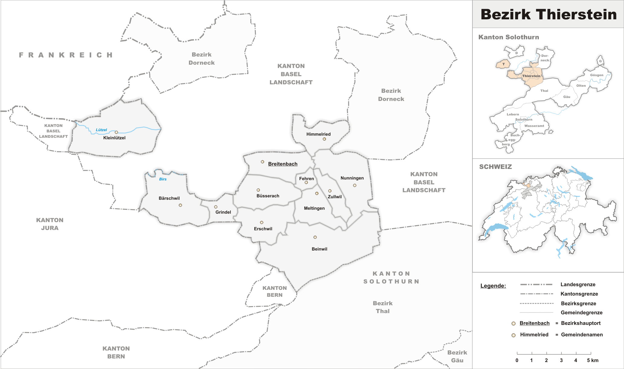 Municipalities in the district of Thierstein